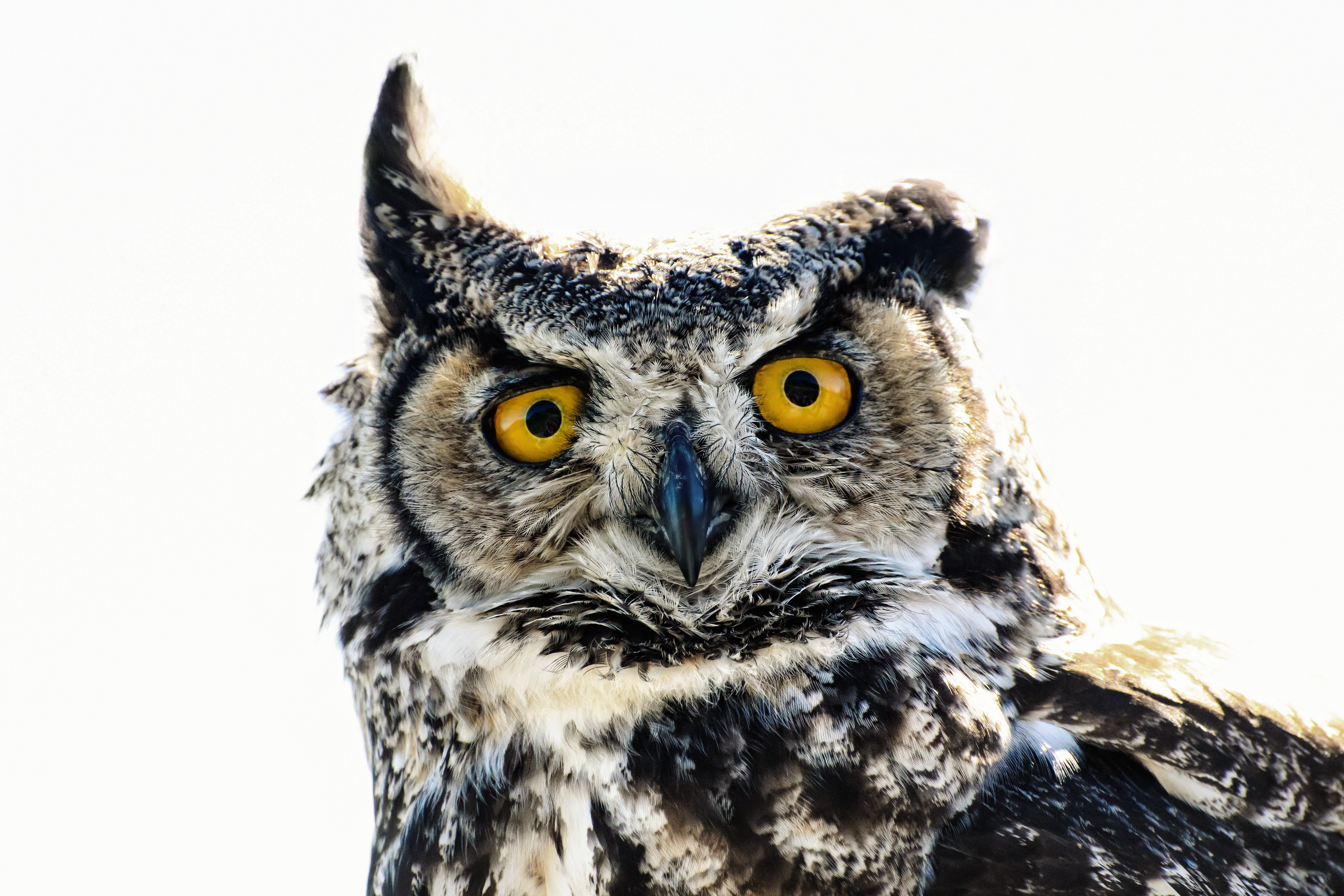 A Coastal Great Horned Owl close-up (Grouse Mountain, Vancouver, BC), B. v. saturatus